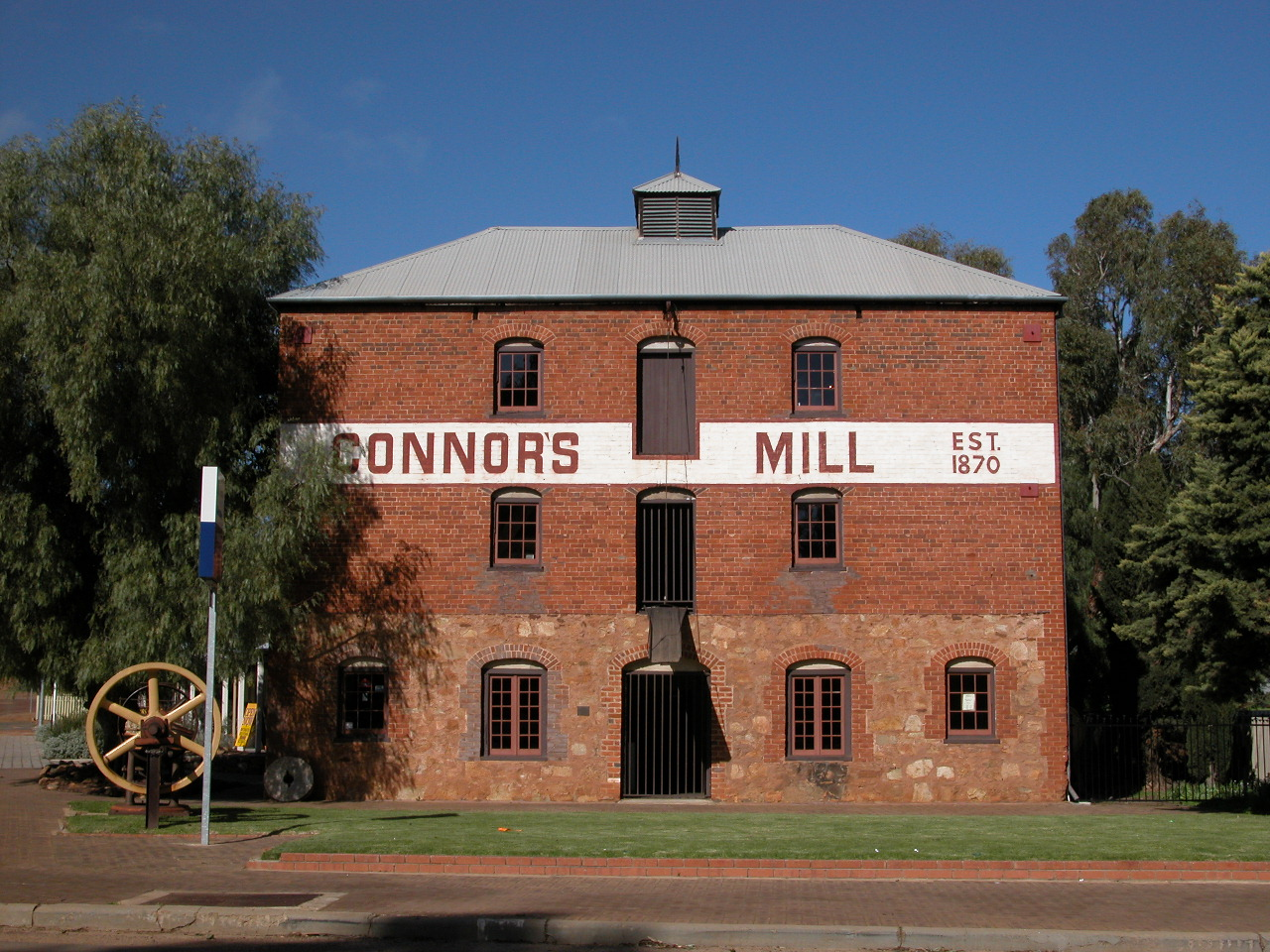 View of Connor's Mill facade from Stirling Terrace